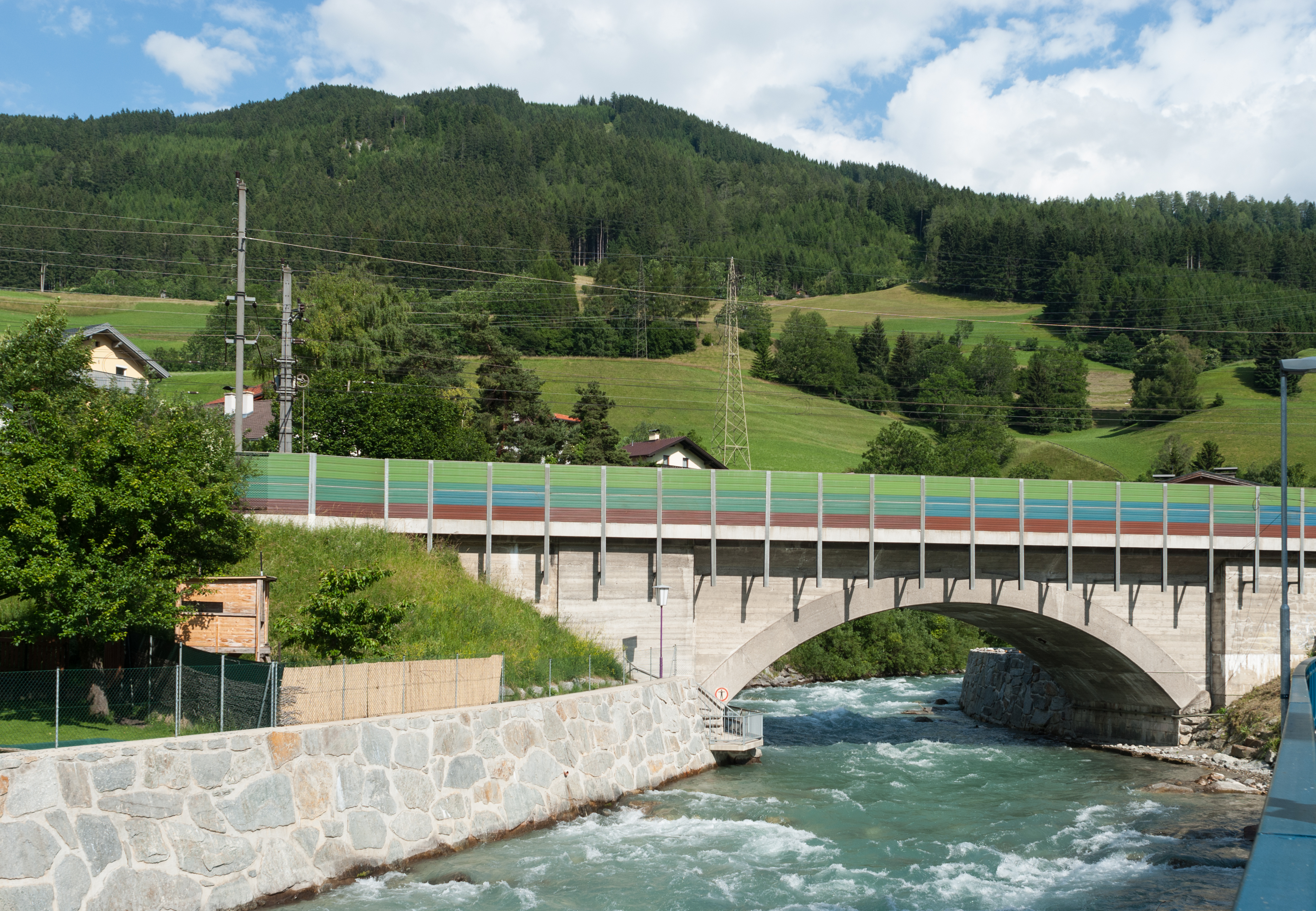 Bridge of the Brenner-Railway traversing the Sill River between the municipalities Matrai (left) and Pfons (right)